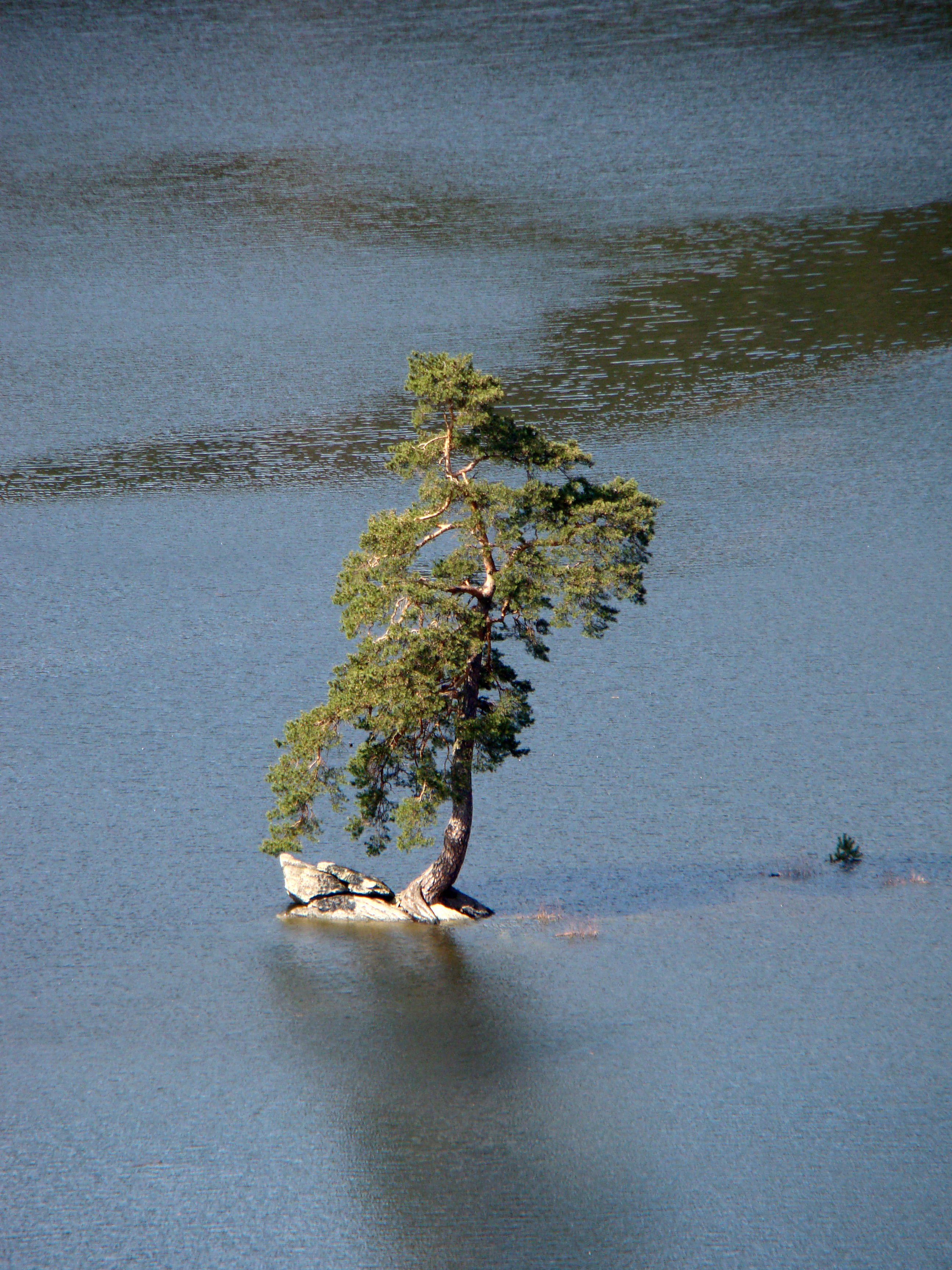 The Chudobin scotch pine - view from Eastern side